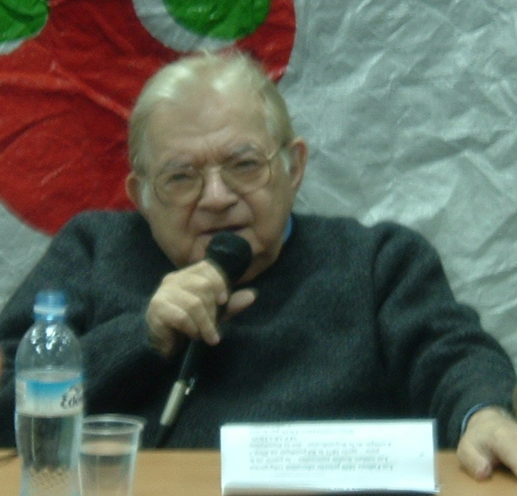 Michael Harsagor, Israeli historian